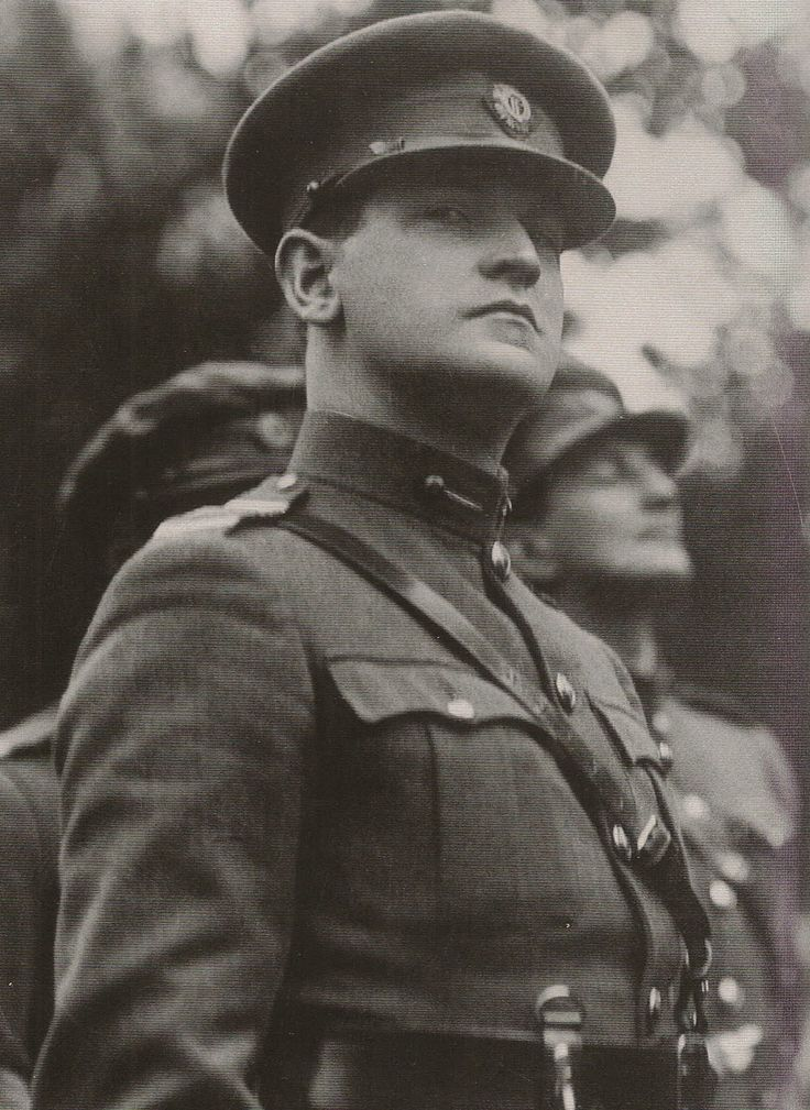 Michael Collins in military uniform.